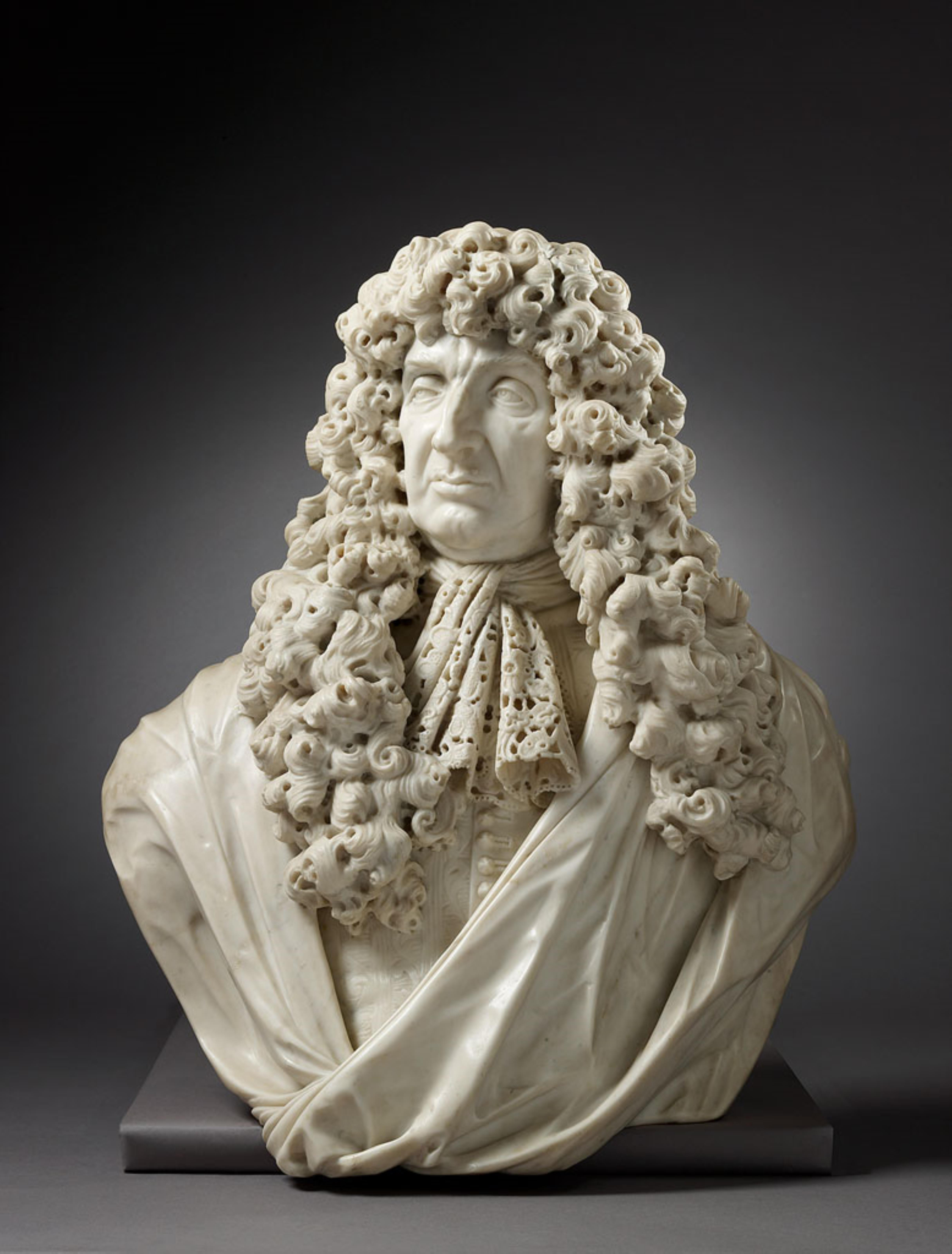 Antonio Lopes Suasso